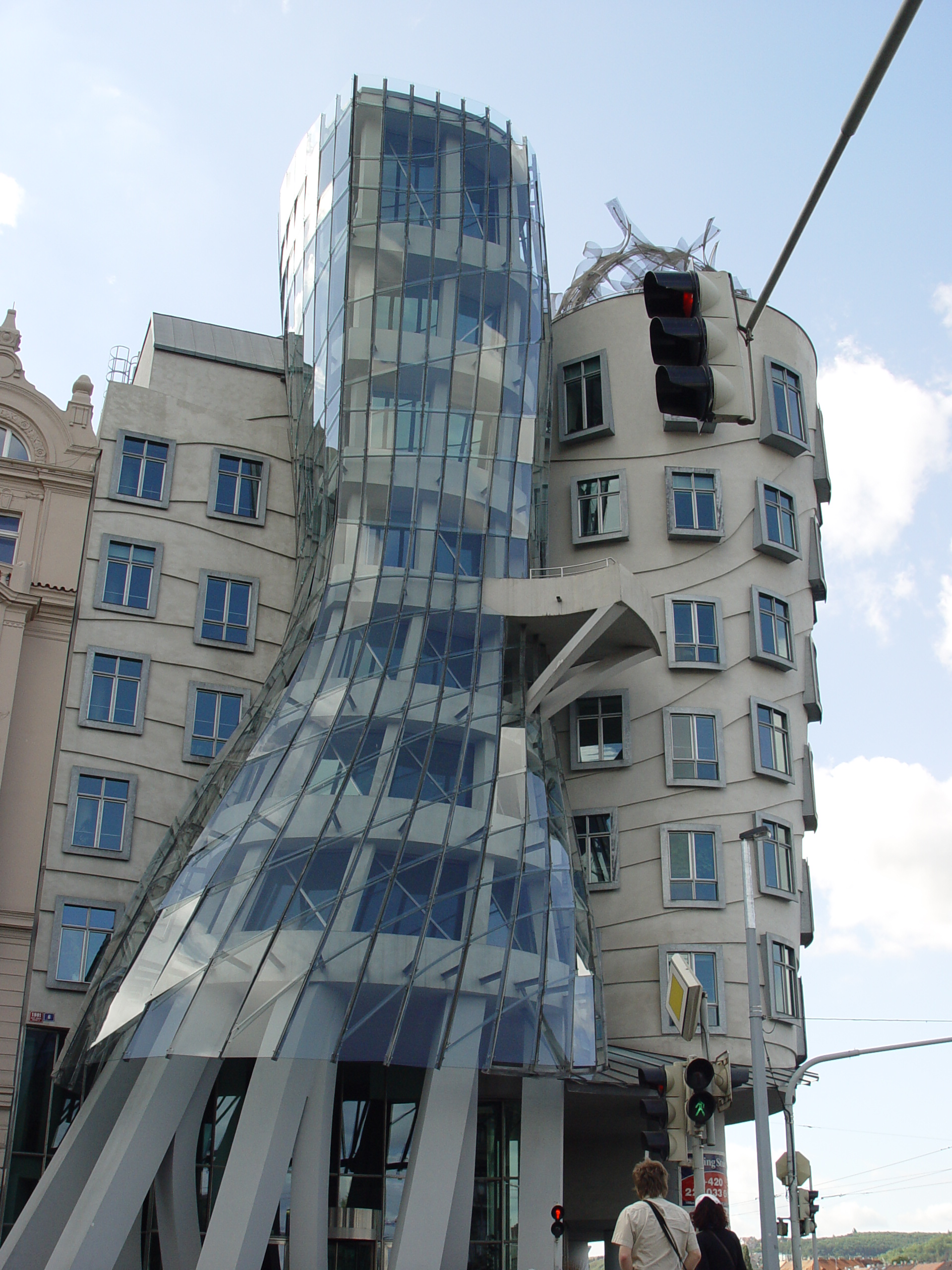 Prague - Dancing House